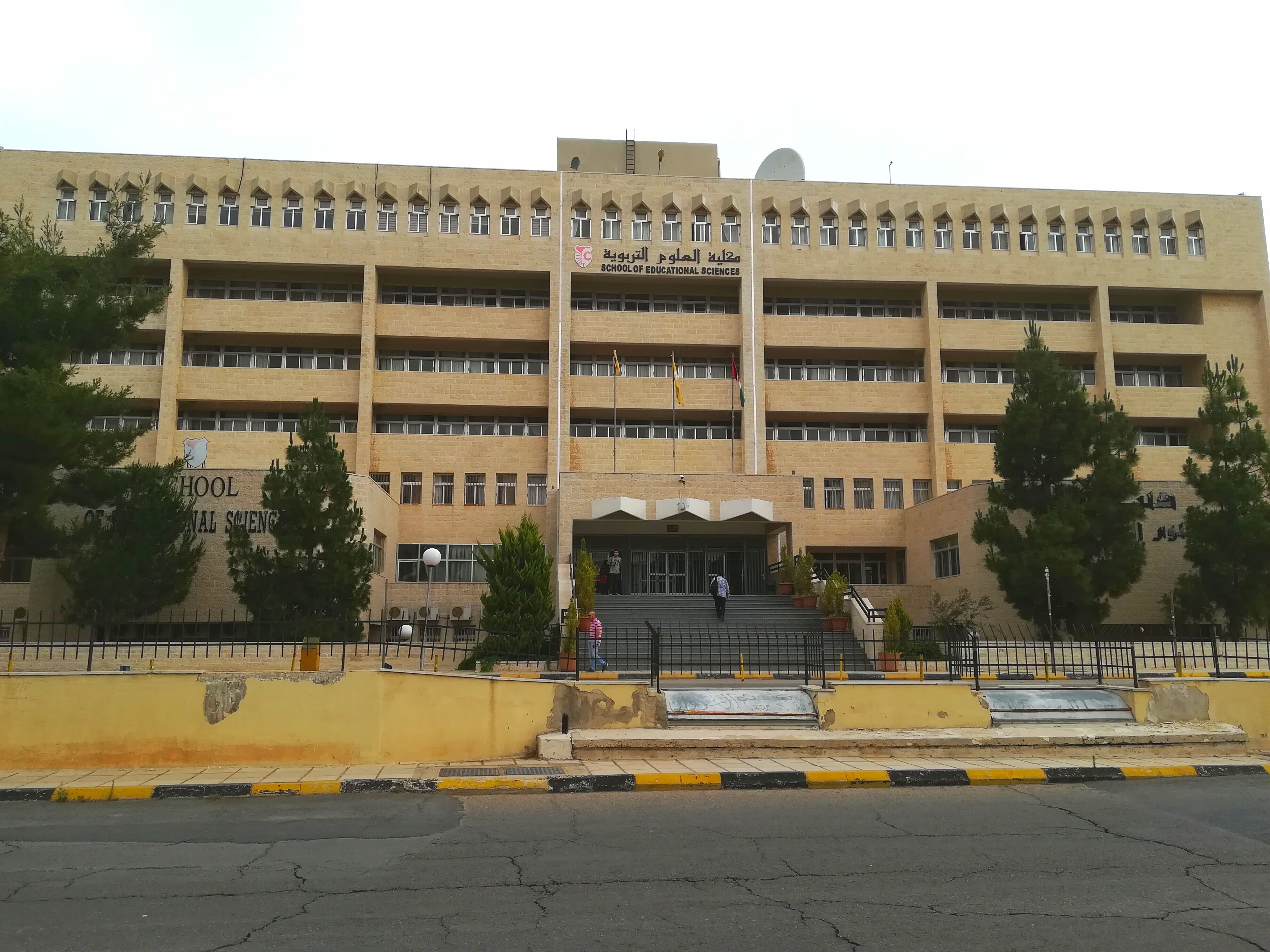 Faculty of Educational Sciences building in University of Jordan